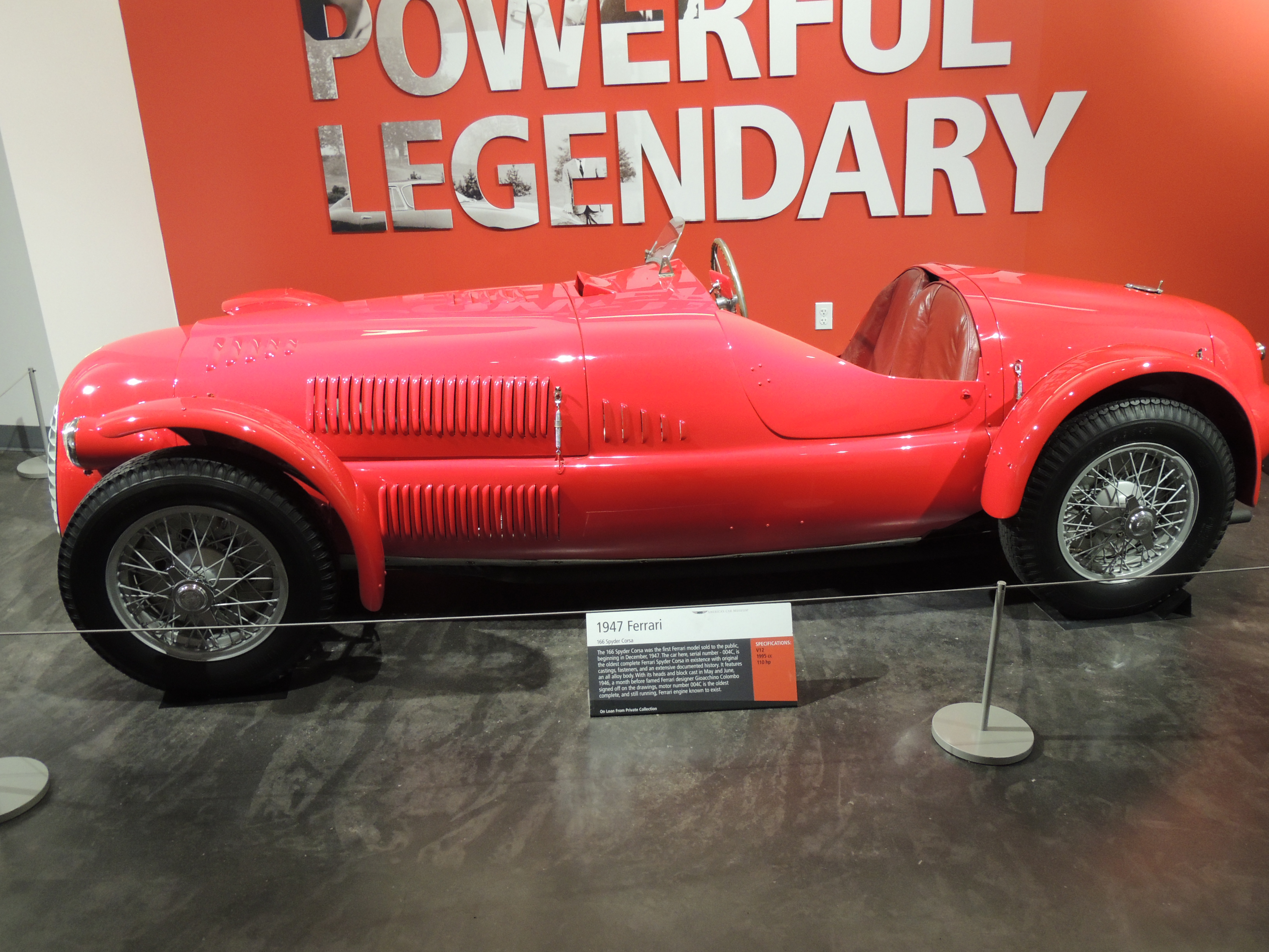 The 166 Spyder Corsa was the first Ferrari model sold to the public, beginning in December 1947. The car here, serial number 004C, is the oldest complete Ferrari Spyder Corsa in existence with original castings, fasteners, and an extensive documented history. It features an all alloy body. With its heads and block cast in May and June, 1946, a month before famed Ferrari designer Cioacchino Colombo signed off on the drawings, motor number 004C is the oldest, and still running, Ferrari engine known to exist.